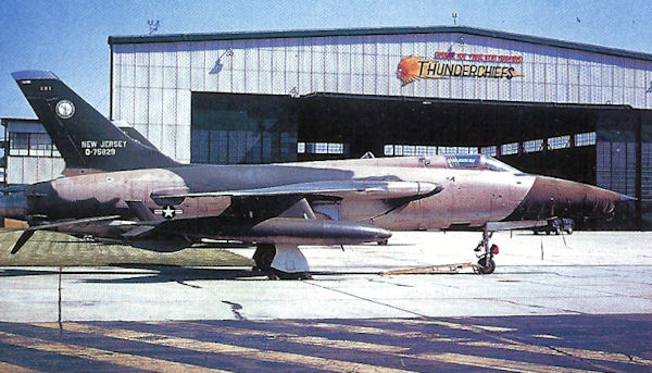 A U.S. Air Force Republic F-105B-20-RE Thunderchief (s/n 57-5829) of the 141st Tactical Fighter Squadron, 108th Tactical fighter Group, New Jersey Air National Guard, about 1968. The 141st TFS was based at McGuire Air Force Base and flew the F-105 from 1964 to 1981.